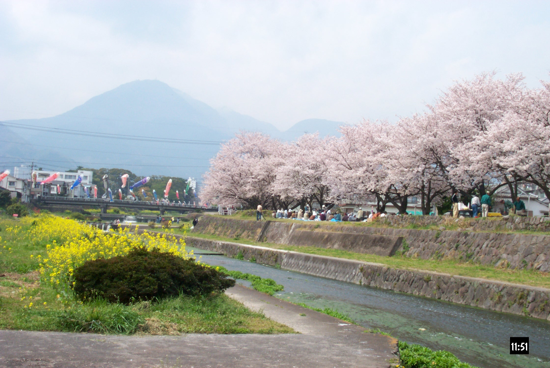 Hanami party under sakura tree along with Boys' Day celebration (Koinobori)